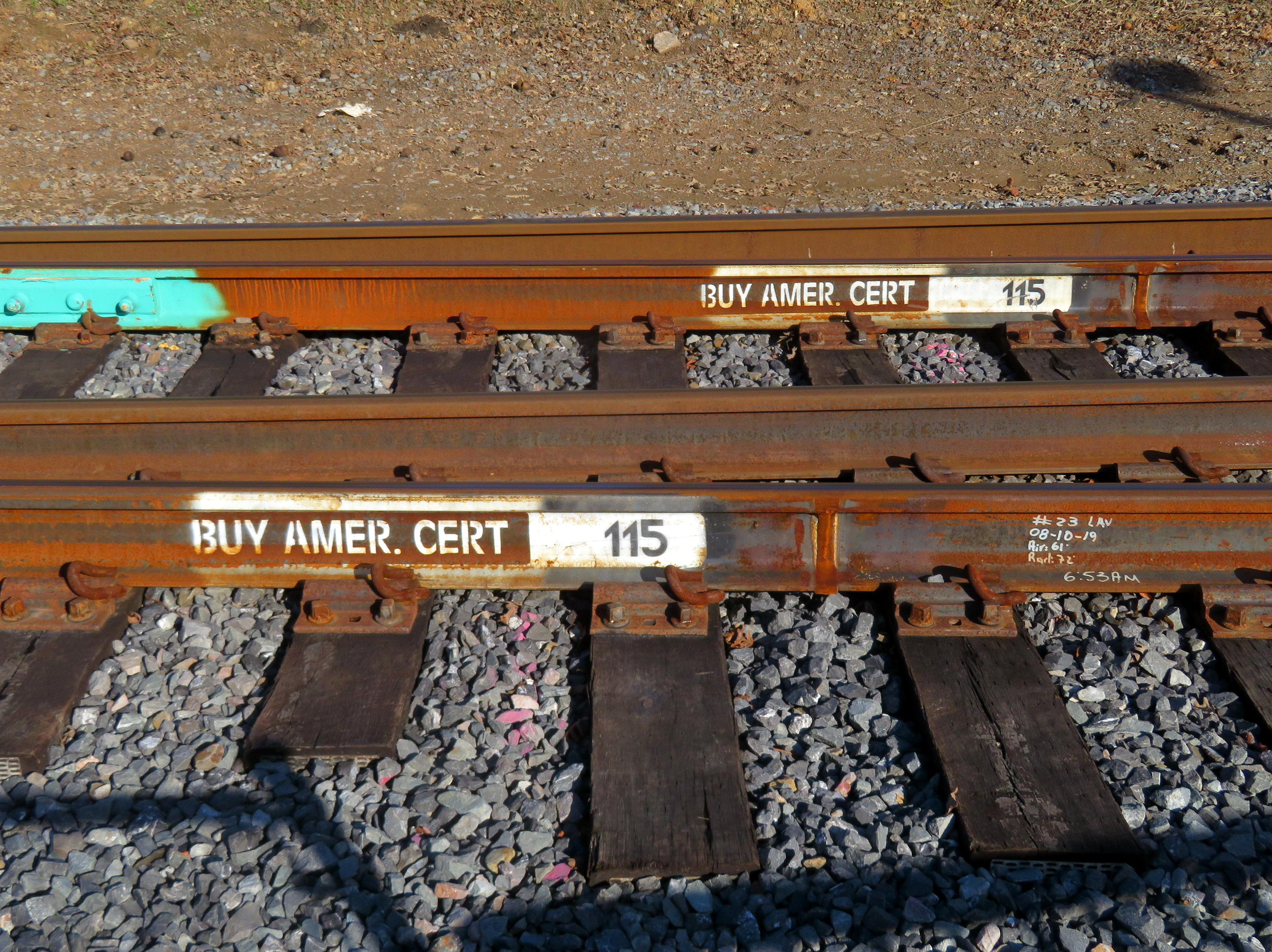 BUY AMER. CERT (Buy America Certified) stenciled on tracks at Novato Downtown station, seen in December 2019